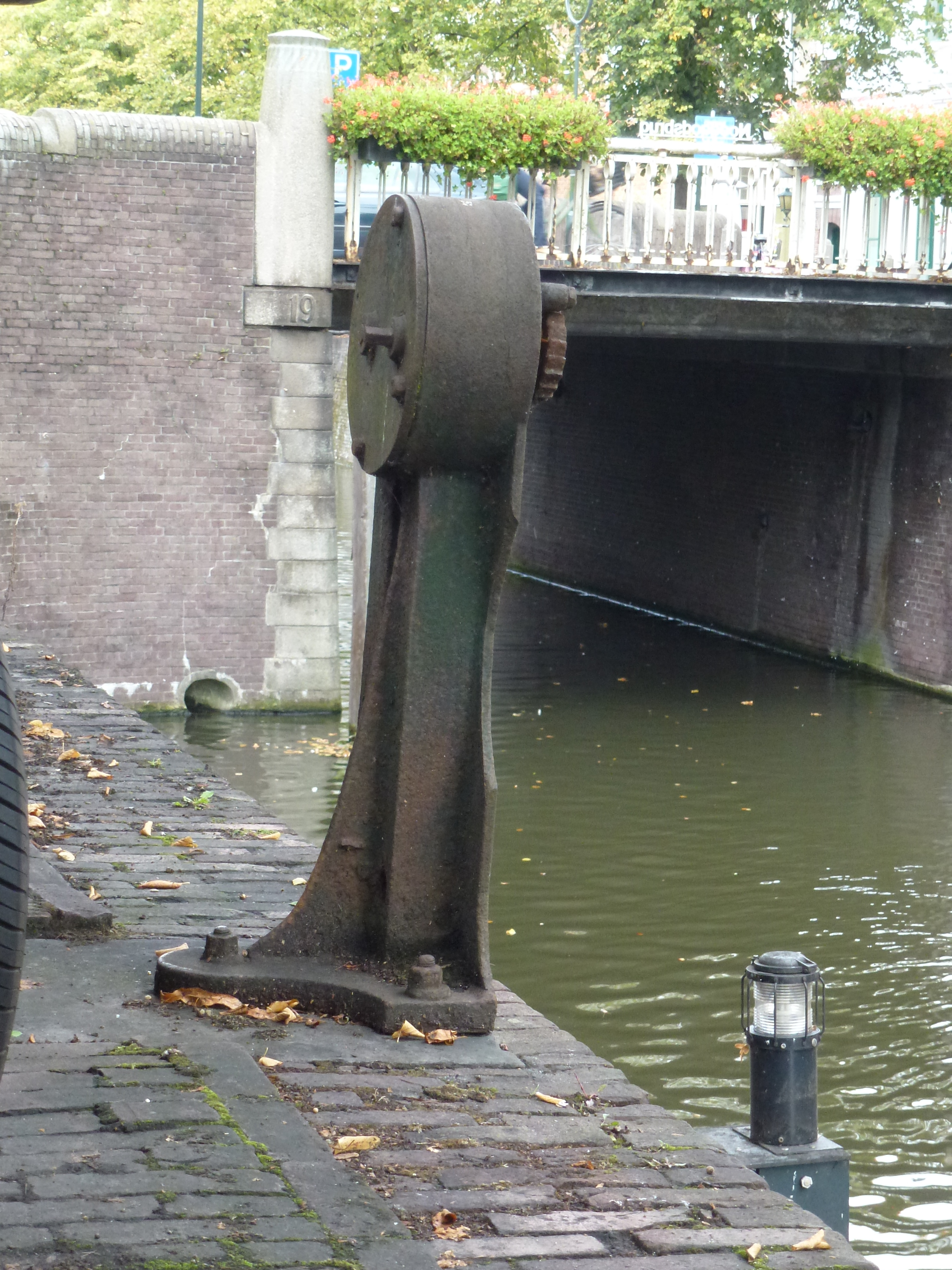 Old mechanism for cleaning the sewerpipes in Gouda NL